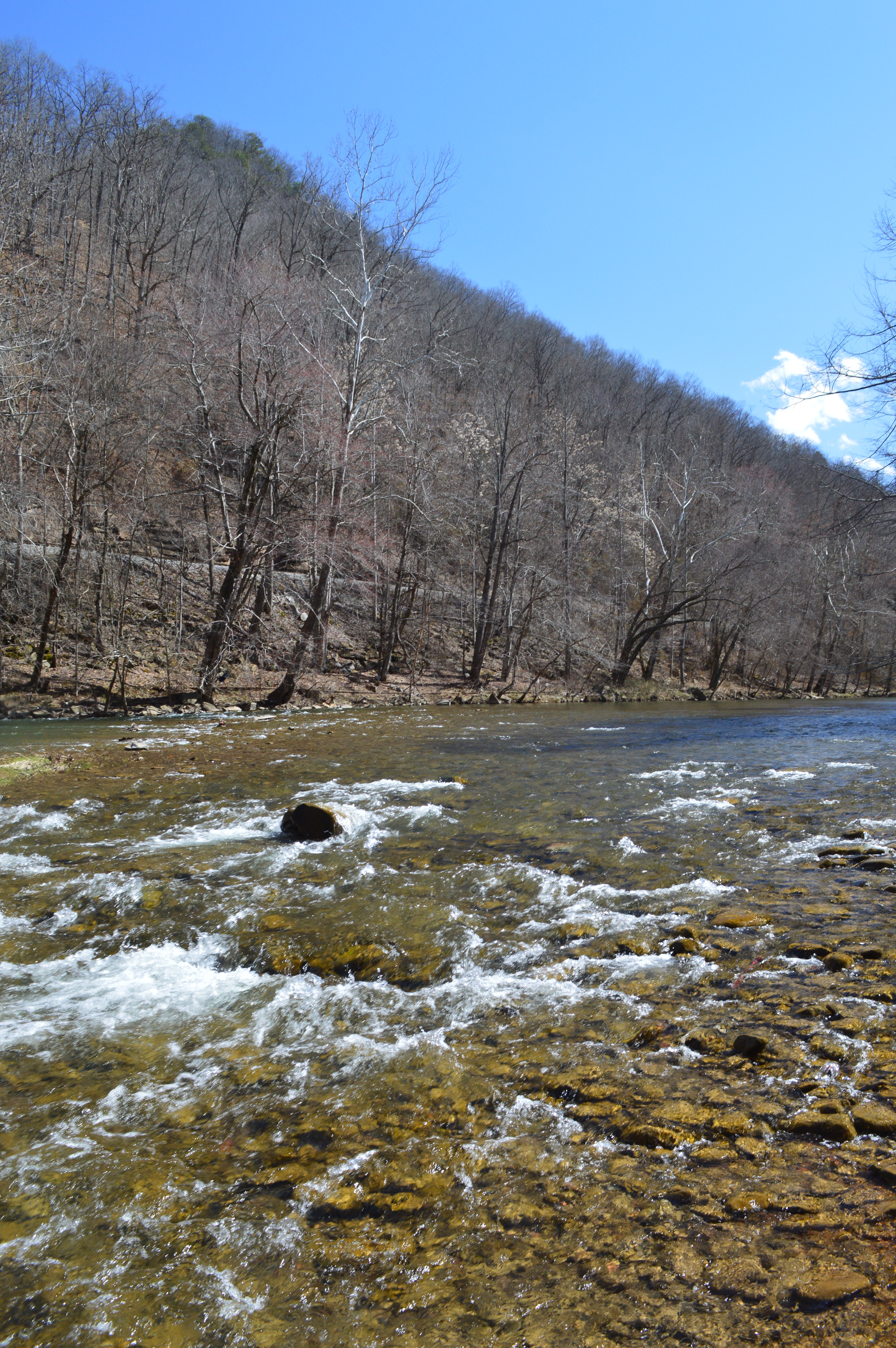 Dry Fork stream in McDowell County, West Virginia. Credit: Zachary Loughman, West Liberty University.